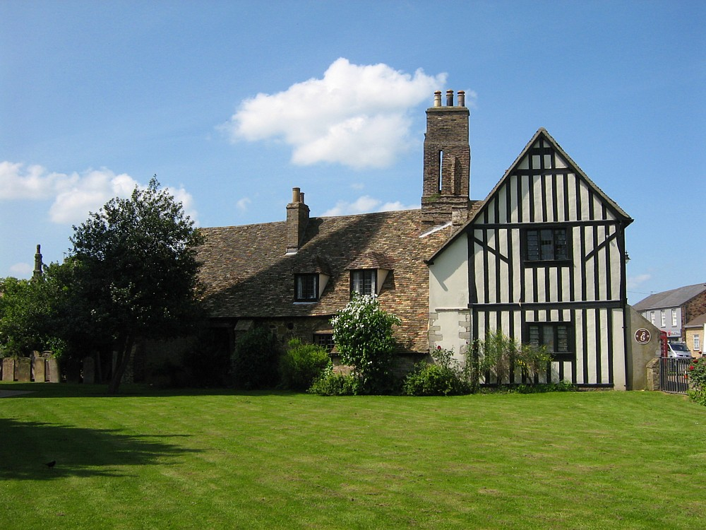 Oliver Cromwell House viewed from St Mary's churchyard (Tourist information and museum). Taken by gwendraith 1st June 2007